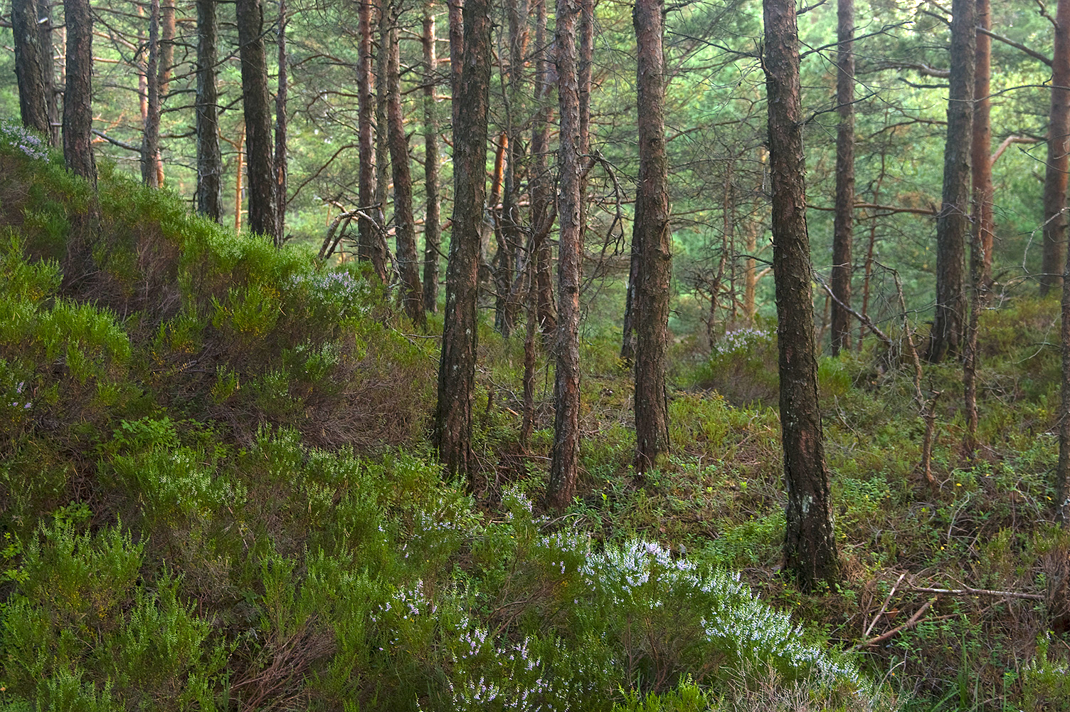 Typical Scots Pine (Pinus sylvestris) forest on an island in the municipality of Os, Hordaland, Norway.